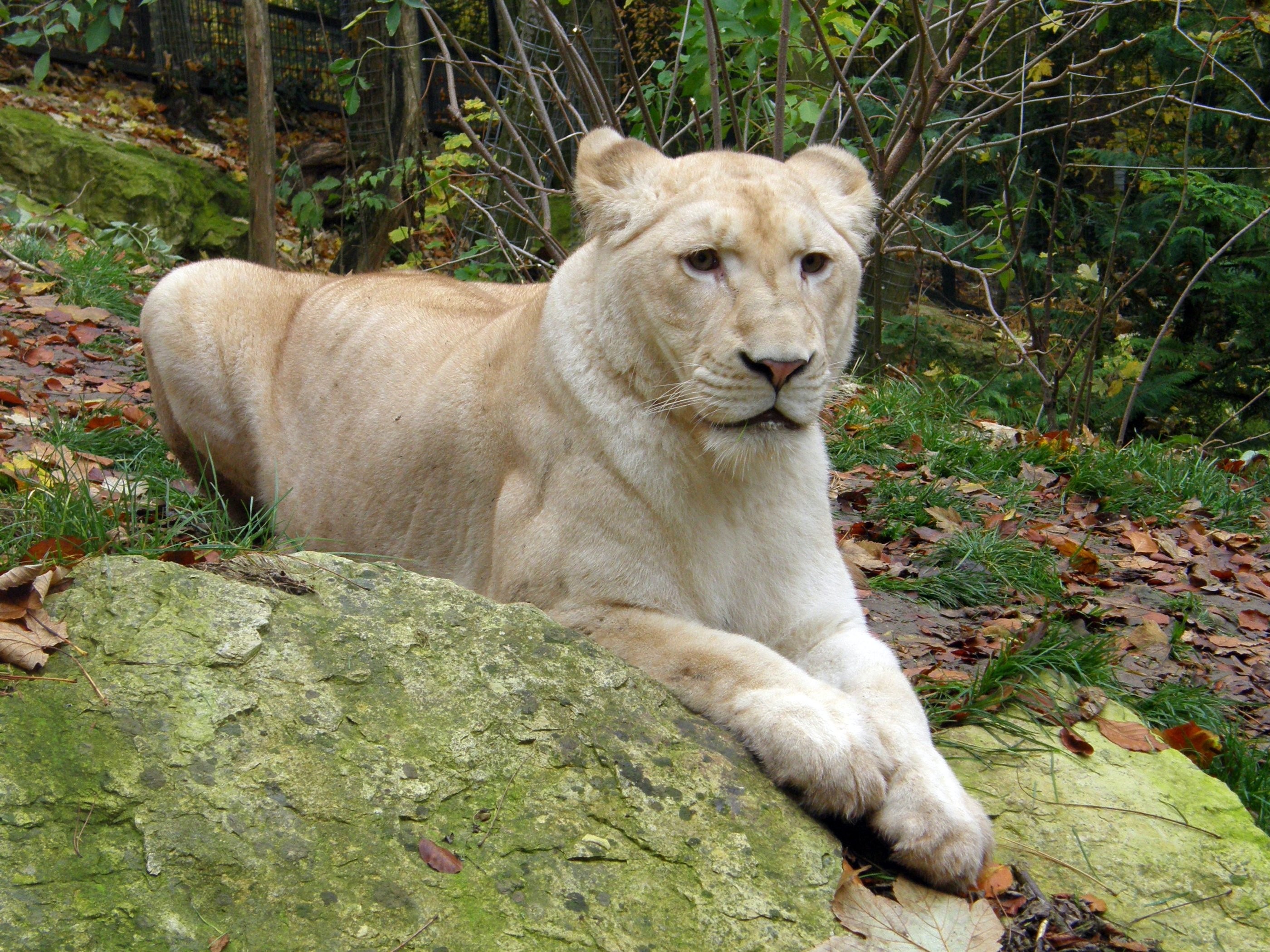 White Lion female